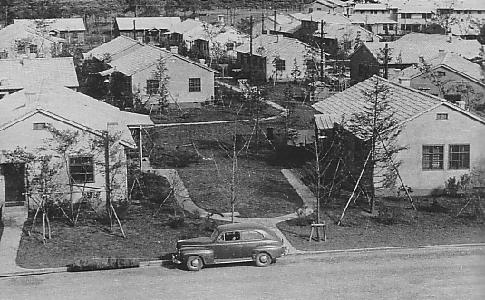 Washington Heights in Tokyo (present-day Yoyogi Park)